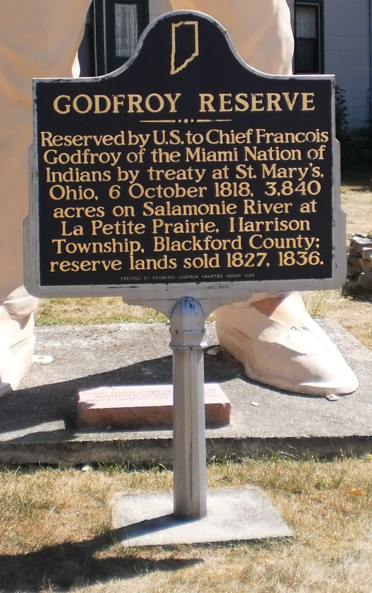 Historical Marker in downtown Montpelier, Indiana in 2010.